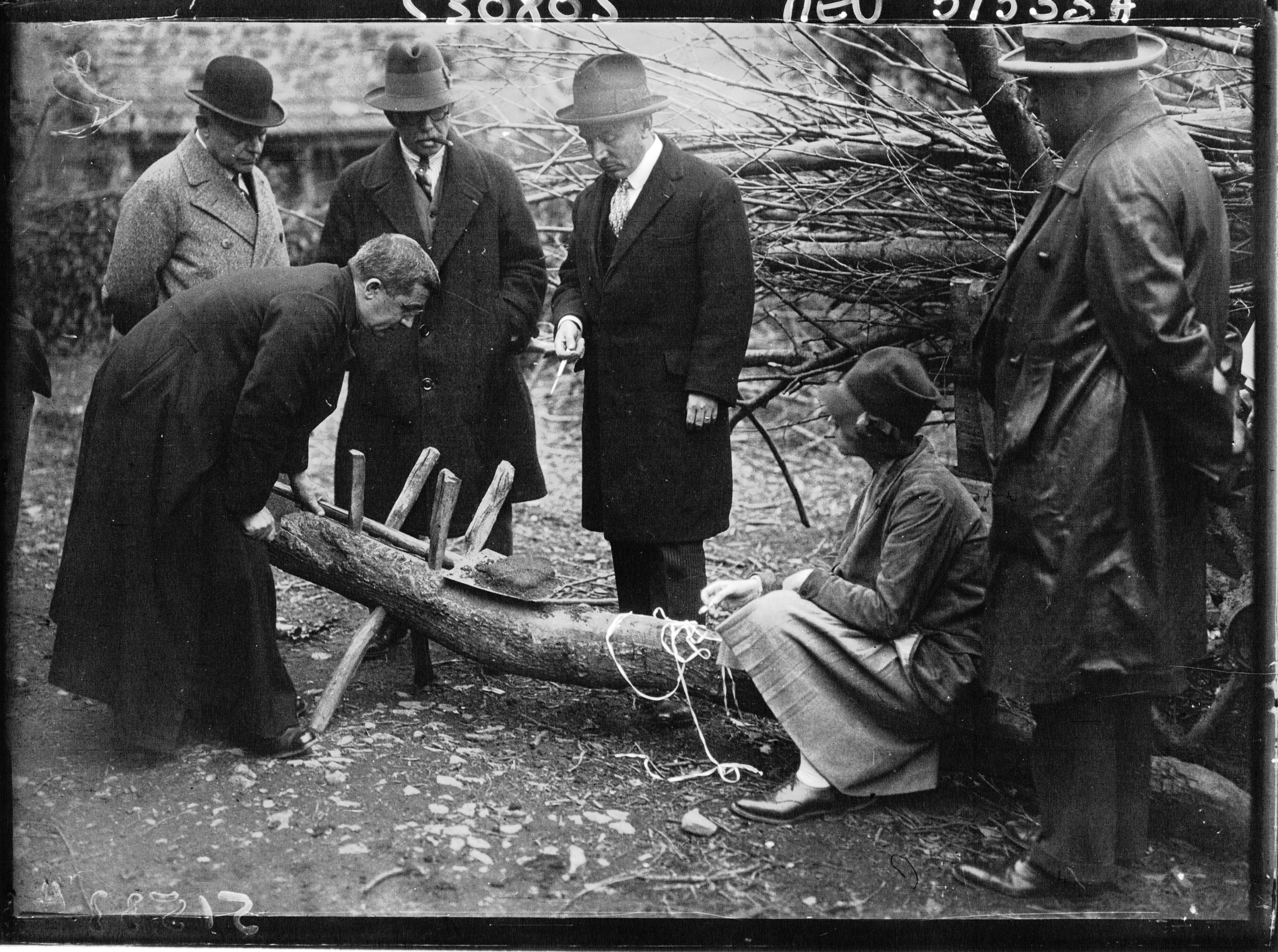 International commission at Glozel (Ferrières-sur-Sichon, Allier, France).